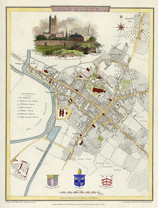 Street map of Gloucester